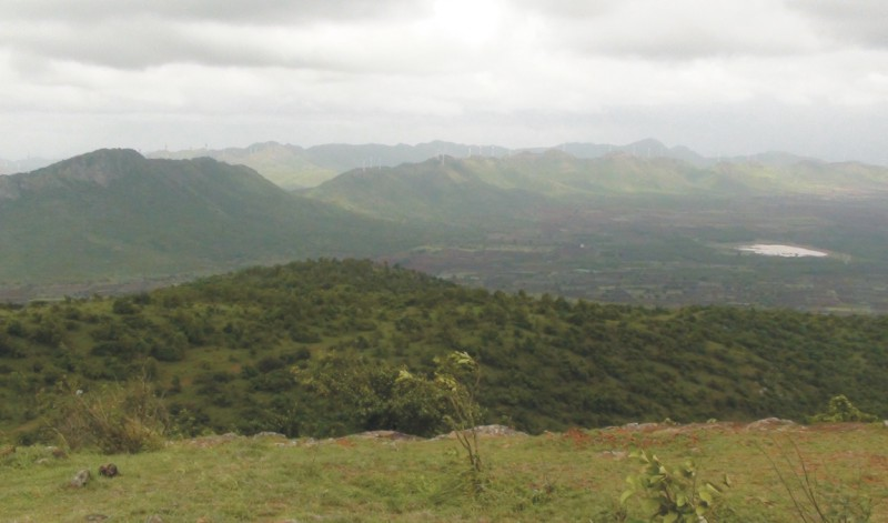 Jogimatti hills